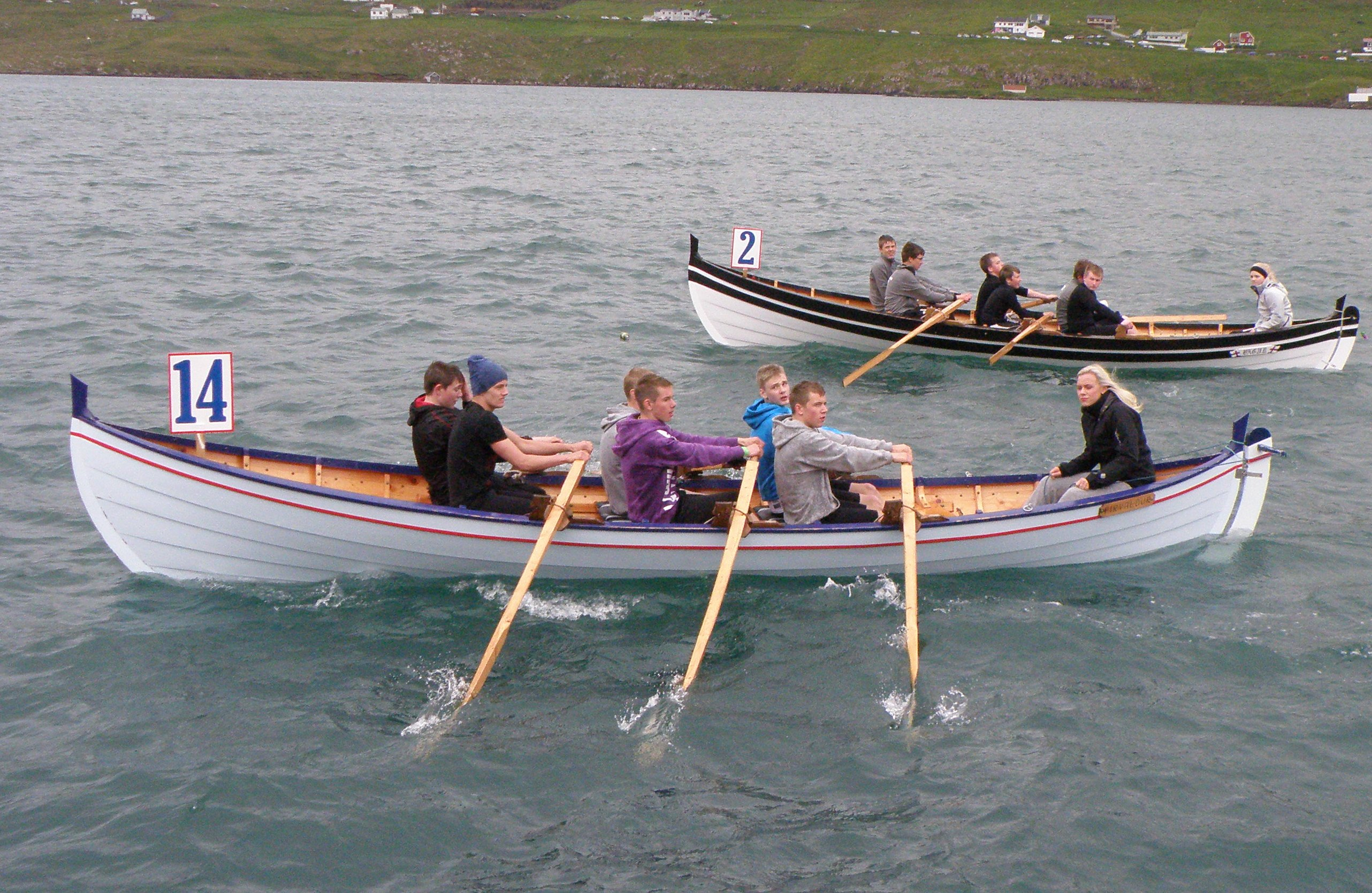 These two boats are from the island Suðuroy, which is the southernmost of the islands in the Faroe Islands. This photo was taken at Jóansøka, which is a local festival with boat race, held every second year in Tvøroyri (2009, 2011, 2013 etc.) and every second year in Vágur (2010, 2012, 2014 etc.) in the last weekend of June, around 24, Sct. John's Day. Jóansøka means Sct. John's Wake. Both of these boats are so-called "5-mannafør", they are for 6 rowers and one coxsvain to steer the boat. The coxsvain can be of the other gender. The boat in the foreground is called Firvaldur and belongs to Froðbiar Sóknar Róðrarfelag (from Tvøroyri, Trongisvágur and Froðba). The black and white boat is called Kjógvin (former Royndin Fríða), it belongs to Vágs Kappróðrarfelag (from Vágur). Føroyskt: Kappróðrarbátar, 5-mannafør. Báturin fremst á myndini er Firvaldur hjá Froðbiar Sóknar Róðrarfelag. Svarti og hvíti báturin eitur Kjógvin, tað er gamla Royndin Fríða, sum Sámal Hansen hevur smíðað. Tað er Vágs Kappróðrarfelag sum eigur bátin.